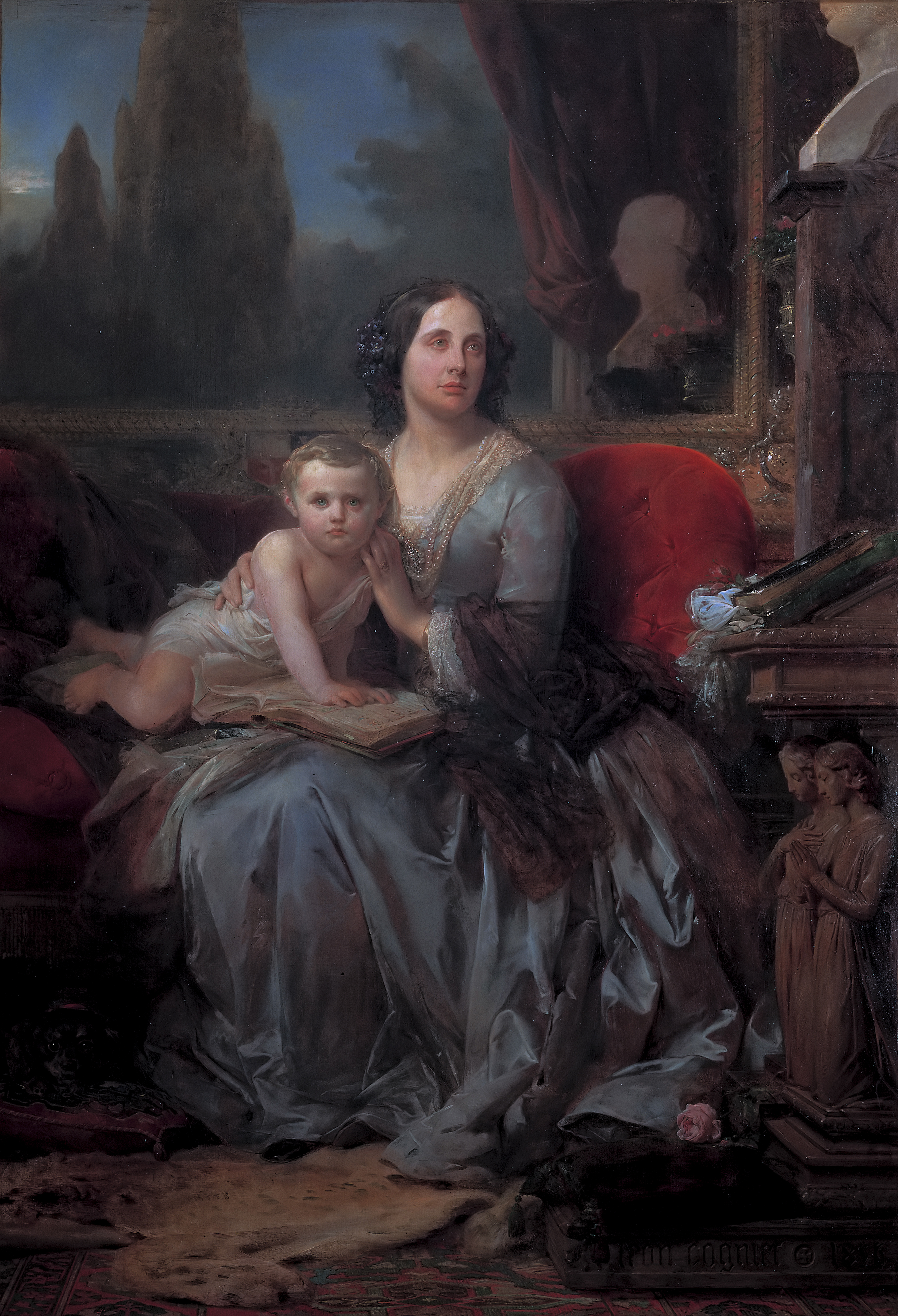 Maria Brignole-Sale De Ferrari, Duchess of Galliera, with her son Filippo